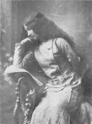 Eva Limiñana (1895-1953), a pianist, screenwriter and film producer from Argentina, as a diplomant of National Conservatory of Chile